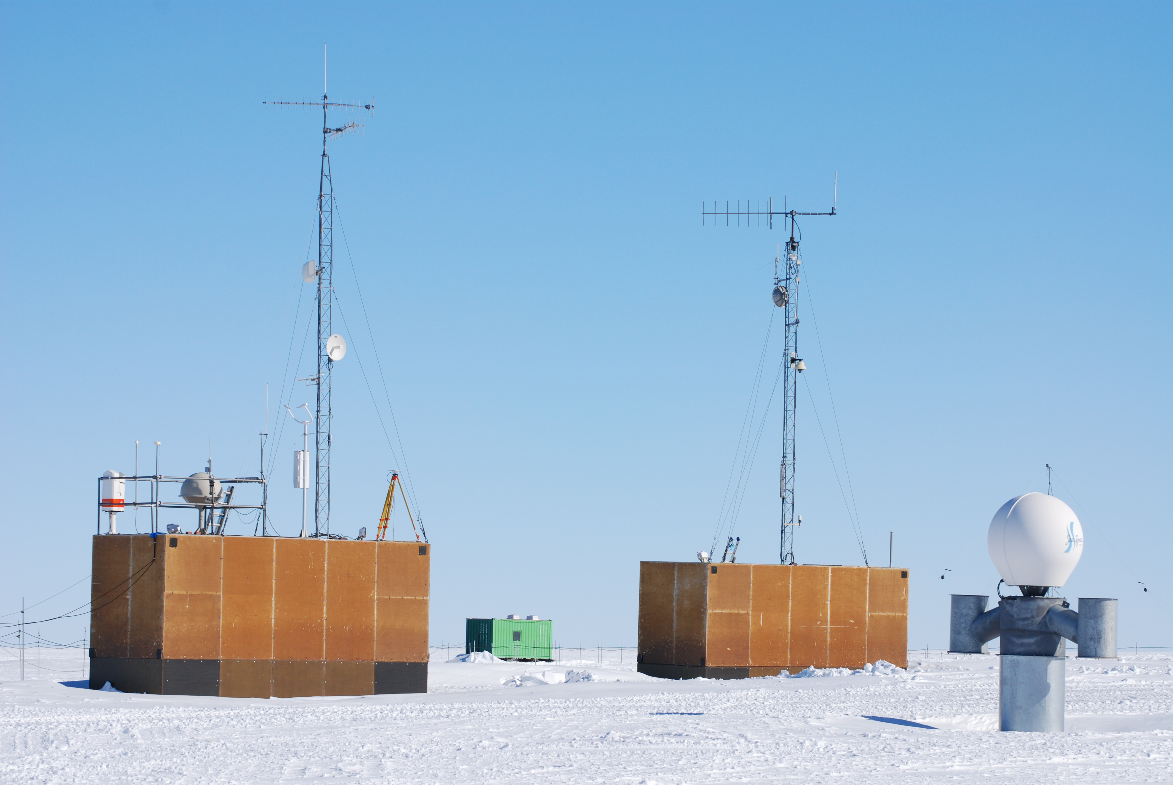 German Antarctic research base Neumayer Station II, located in Dronning Maud Land, Antarctica, was operated by the Alfred Wegener Institute Helmholtz Centre for Polar and Marine Research (AWI) from 1992 to 2009.